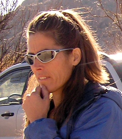 crop of Lynn Hill from photo of people about to go bouldering at Lynn Hill Climbing Camp, Hueco Tanks, Texas. Levels adjusted.